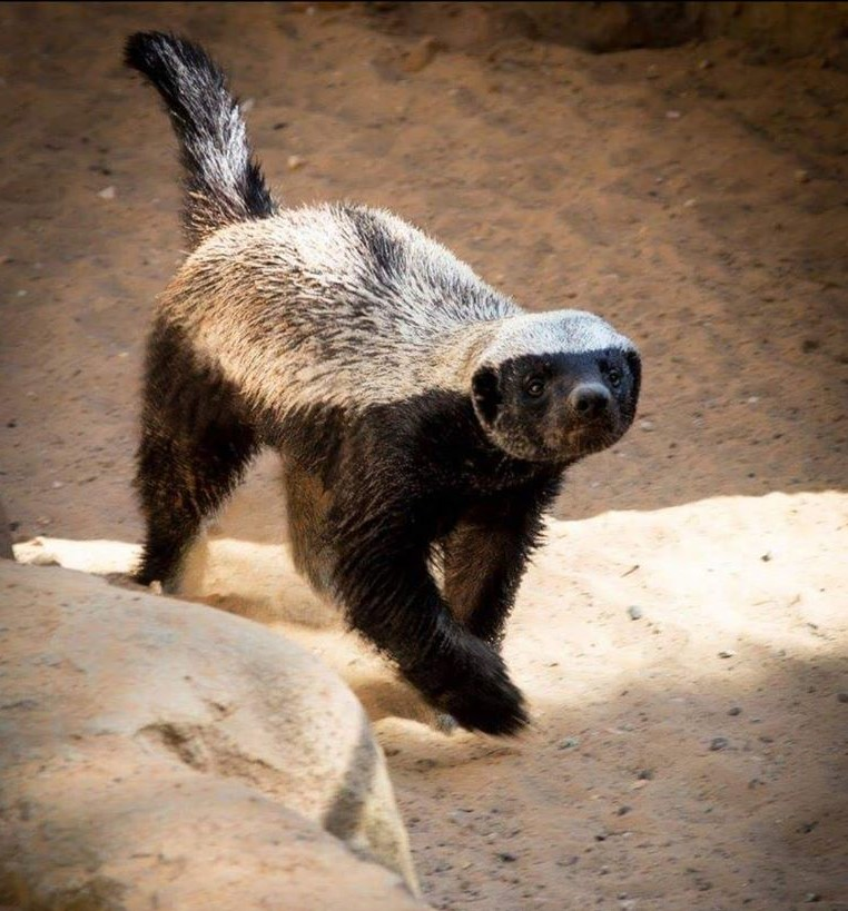 Honey Badger (Mellivora capensis) at the Jerusalem Biblical Zoo, Al-Malha, Al-Quds (Jerusalem) on 02 August 2013